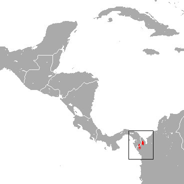 Darien Small-eared Shrew (Cryptotis mera) range